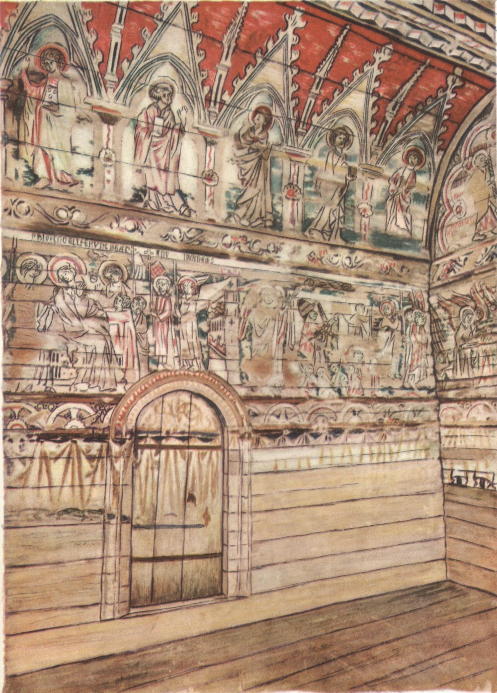 The famous church paintings of Stora Råda church in Värmland, Sweden, were dated to 1323. The church burned down in 2001.